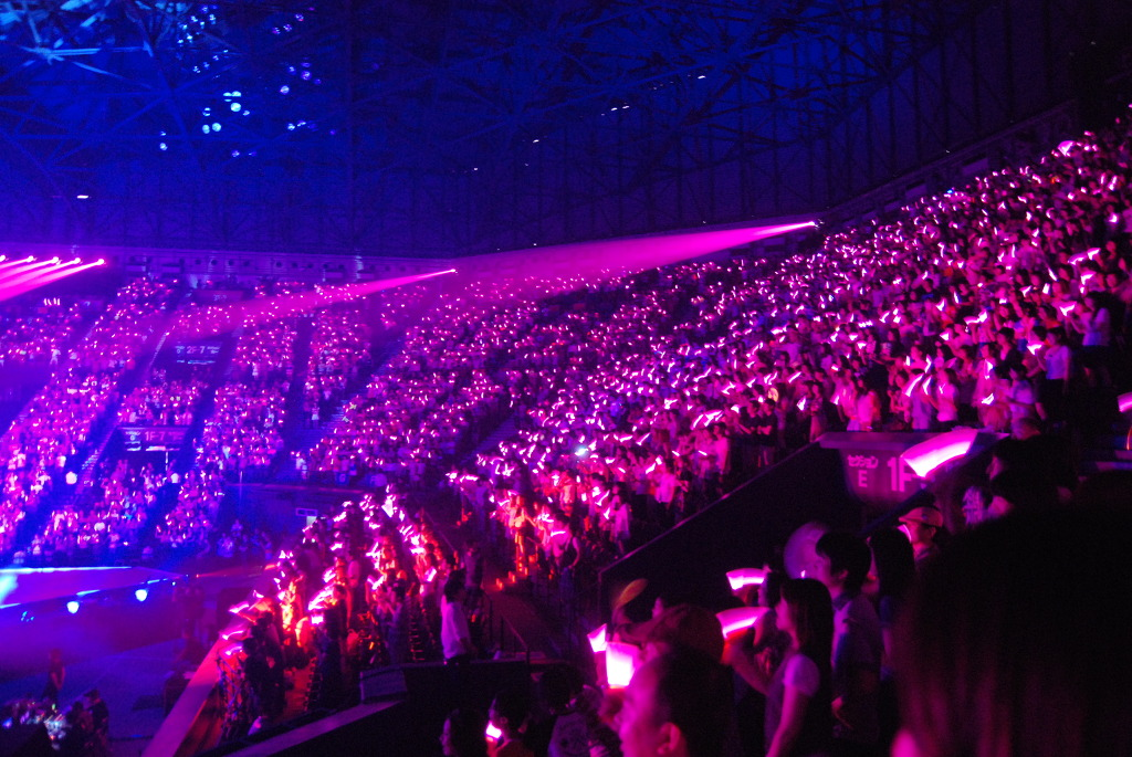 snsd fans attended the groups' concert